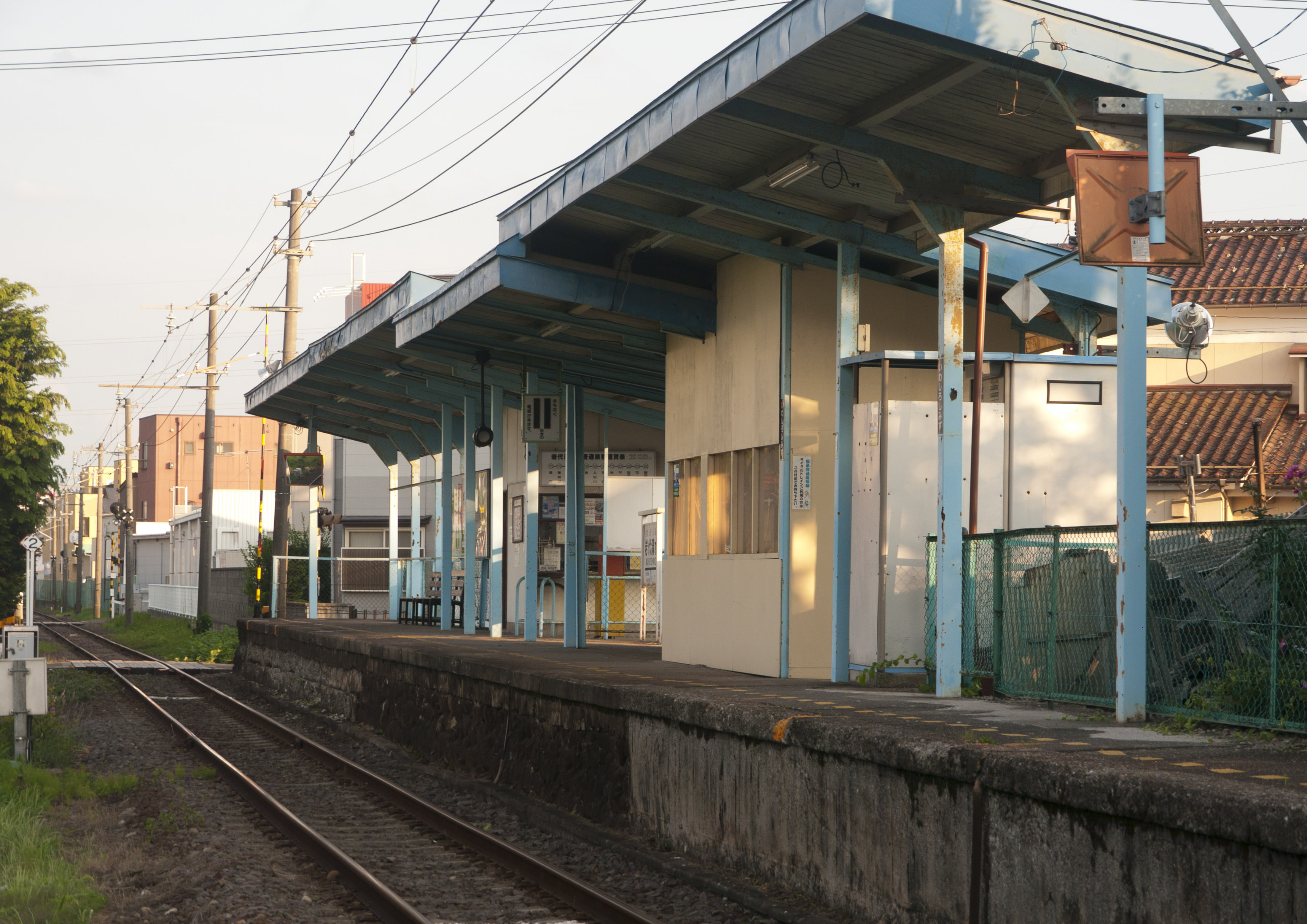 Fukushima Kotsu Iizaka Line Iwashiro-Shimizu Platform in Fukushima, Fukushima, Japan